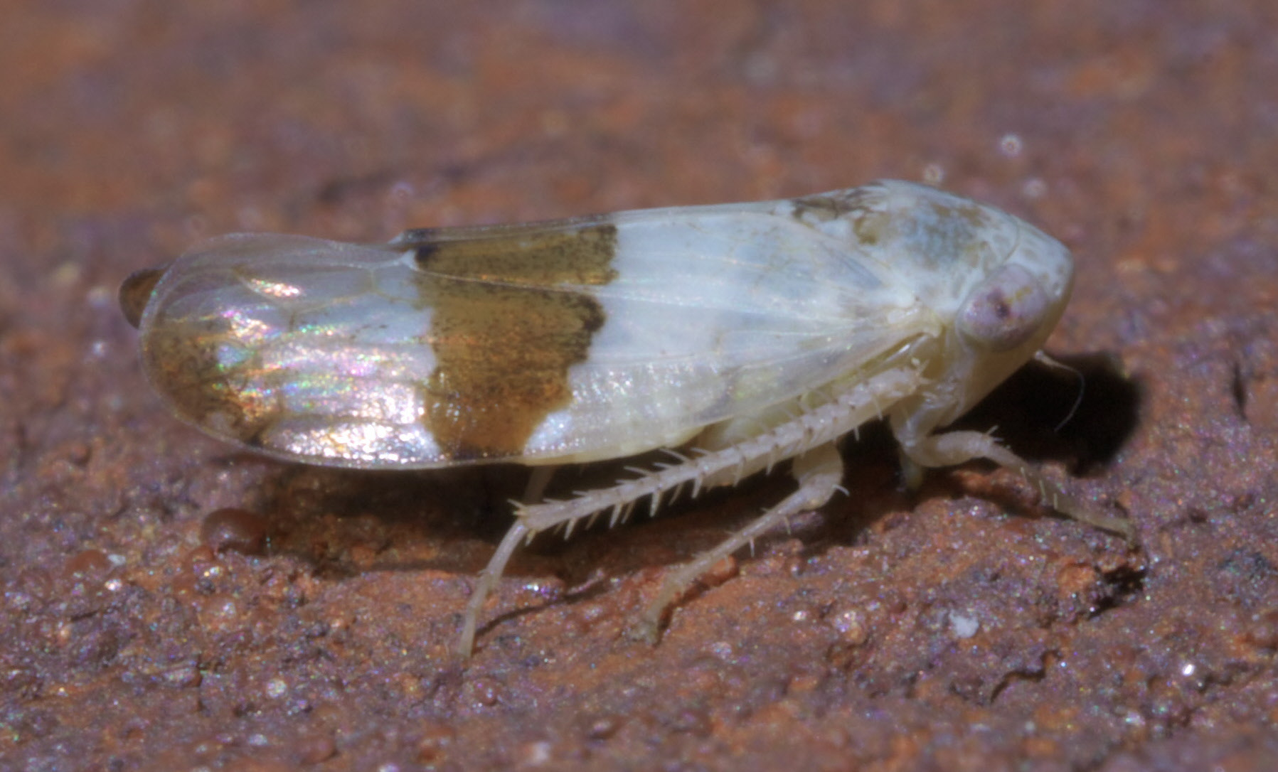 Norvellina seminuda, Family: Leafhoppers, ID Confidence: 90